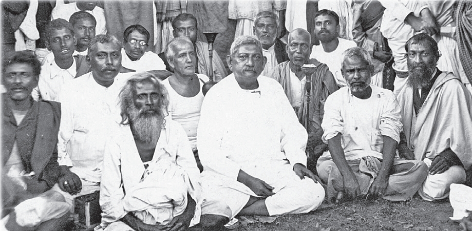 Group photo of devotees and disciples of Ramakrishna. First Row (L to R): Akshay Kumar Sen, Girish Chandra Gosh (center), Swami Adbhutananda, Mahendranath Gupta. Second Row: Kaliprasad Gosh (behind Akshay Kumar Sen), Devendranath Mazoomdar (behind Girish Chandra Gosh to the left), Swami Advaitananda (behind Girish Chandra Gosh to the right).